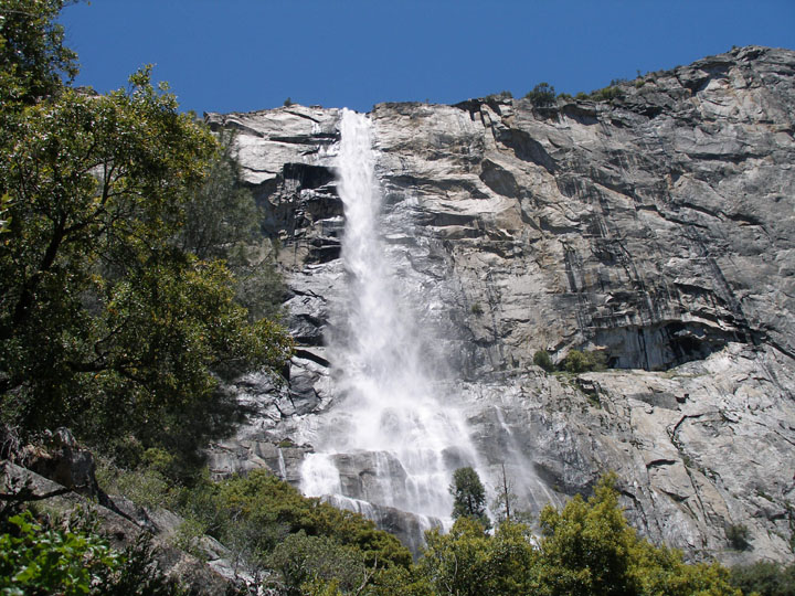 Waterfall at Hetch Hetchy, Yosemite National Park. Taken by Andrew Thompson